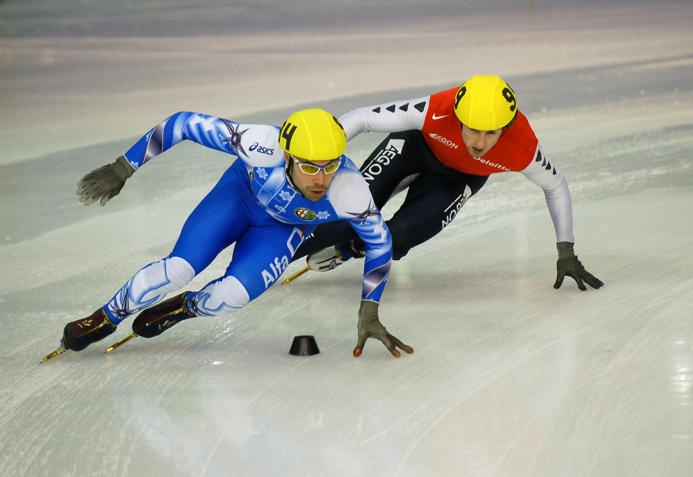 SU European Short Track Speed Skating Championships, @ Ice Sheffield, 19 January 2007, Fabio Carta takes the lead in the Mens 5000m relay heats5000m Relay Heats Men - Sheffield 2007